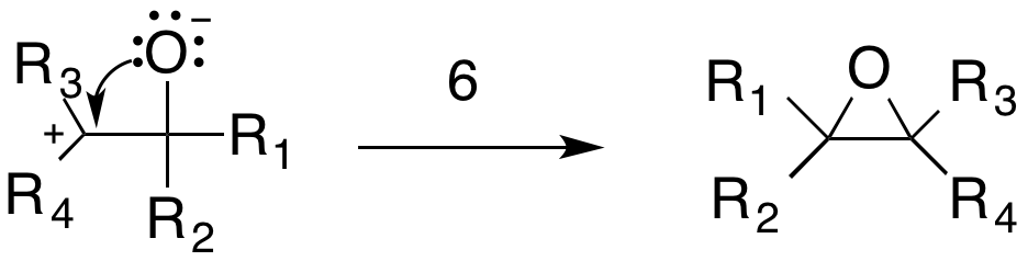 The production of the epoxide from the carbocation intermediate